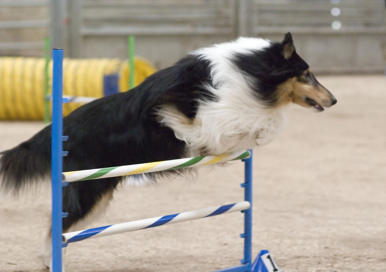 A tricolour Rough Collie during a dog agility fun match at the Helena Montana Kennel Club.